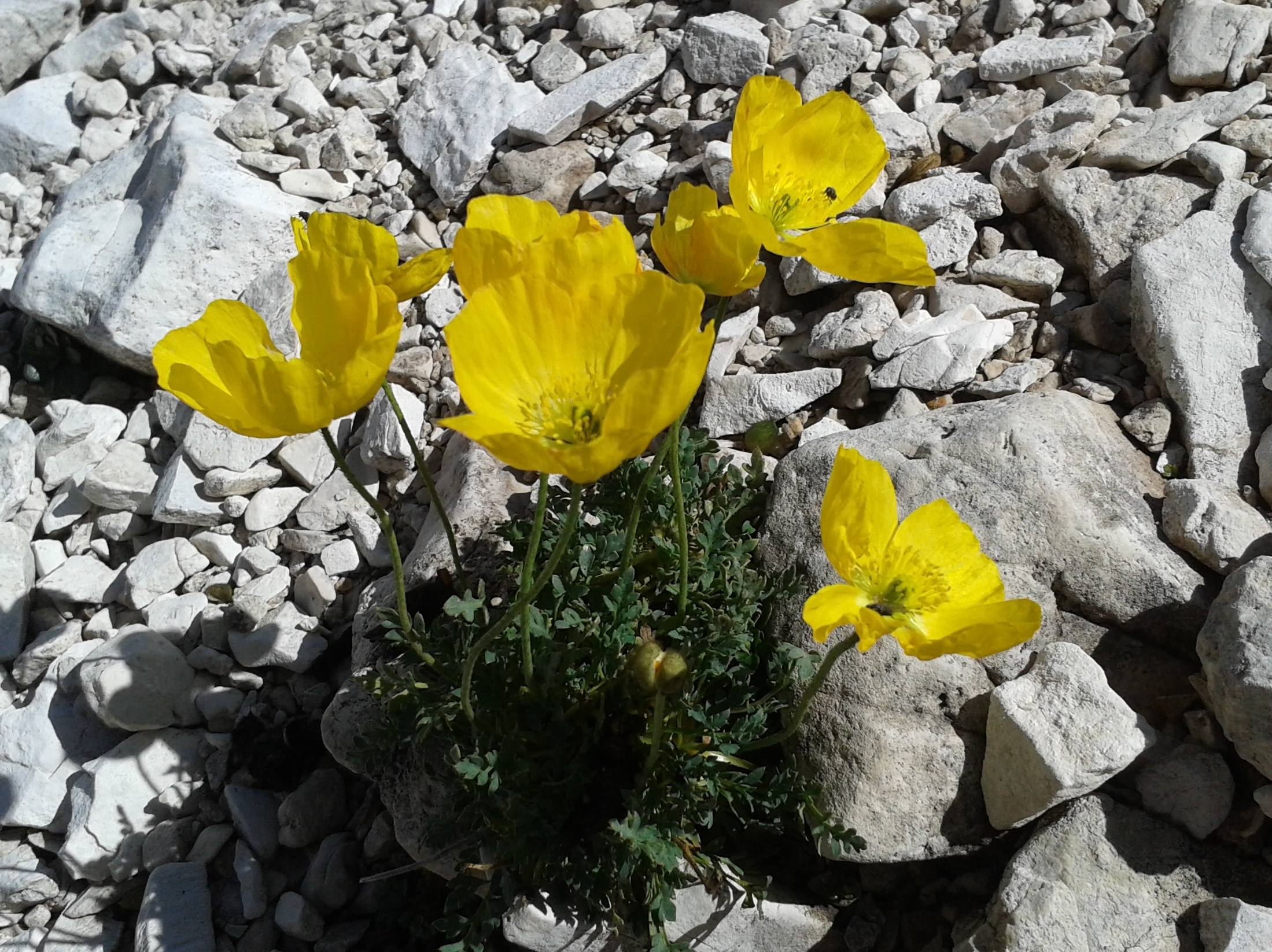 Alpine poppy